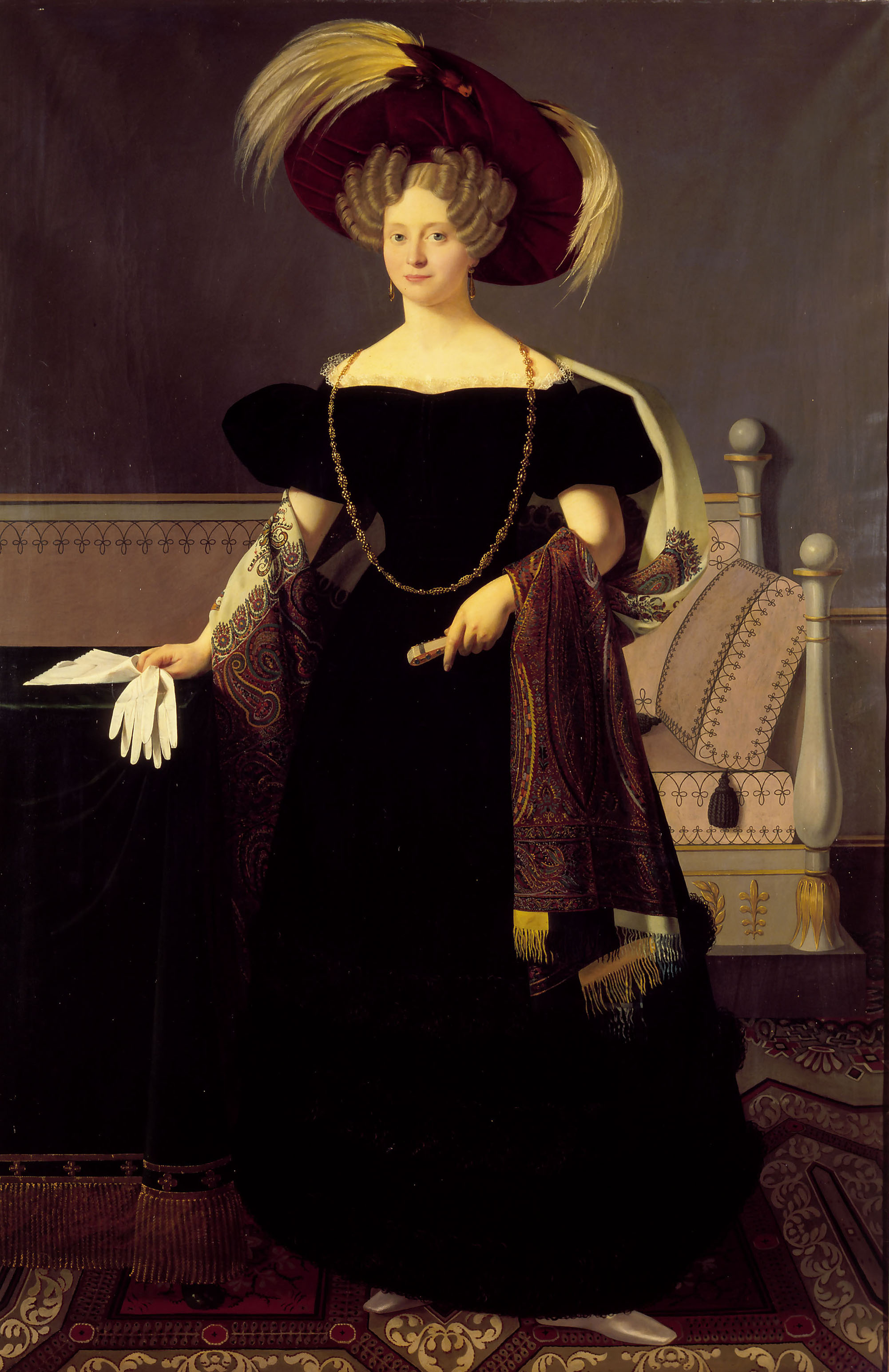 Vilhelmine Marie of Denmark, duchess of Schleswig-Holstein-Sonderburg-Glücksburg